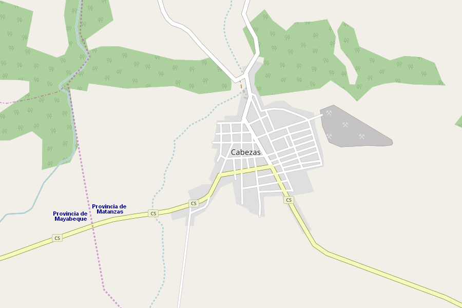 This map may be incomplete, and may contain errors. Don't rely solely on it for navigation.